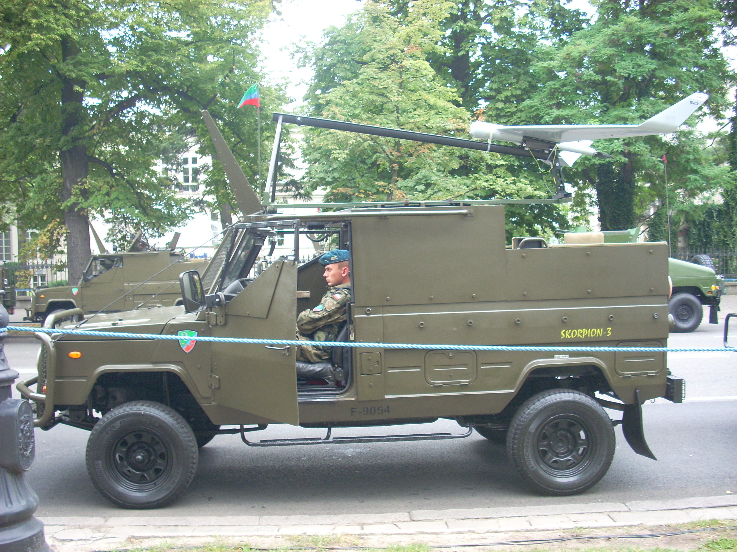 Skorpion-3 vehicle UAV platform, Wojska Lądowe